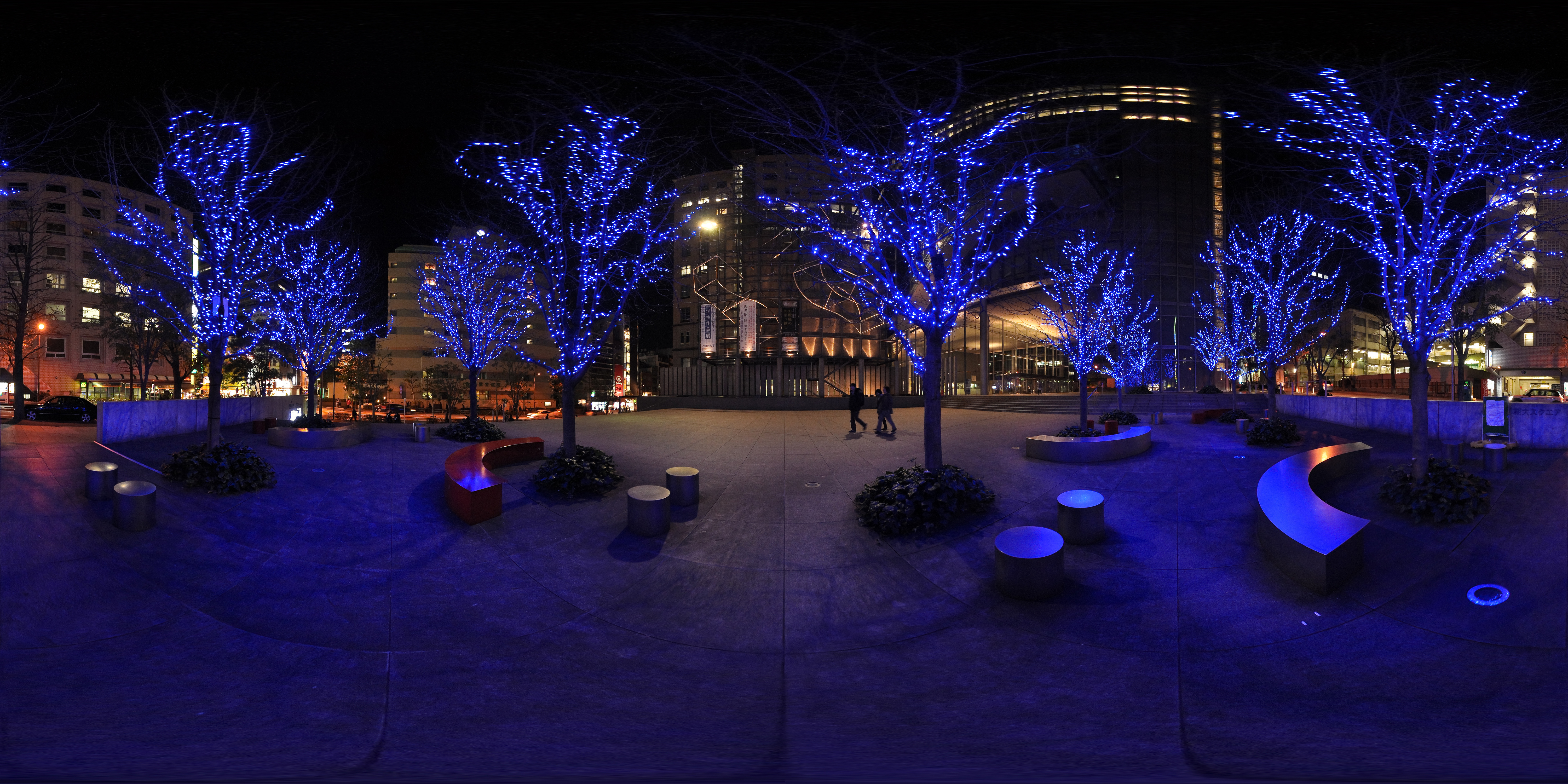 Illuminated trees at Maiji Univ, in Ochano-mizu, Tokyo. Please enjoy the interactive viewer! (thanks to fieldOfView and [/photos/aldo/ Aldo]) - SLR camera and lens: Nikon D90 /w Sigma 8mm fisheye - handheld (with Simon's "PanoTool") - 4 pan (Philopod pitch variation) 3EX(2EV) each. - software: enfuse, ptgui and Photoshop on MS-Windows XP See where this picture was taken. [?] [MAP by ALPSLAB]